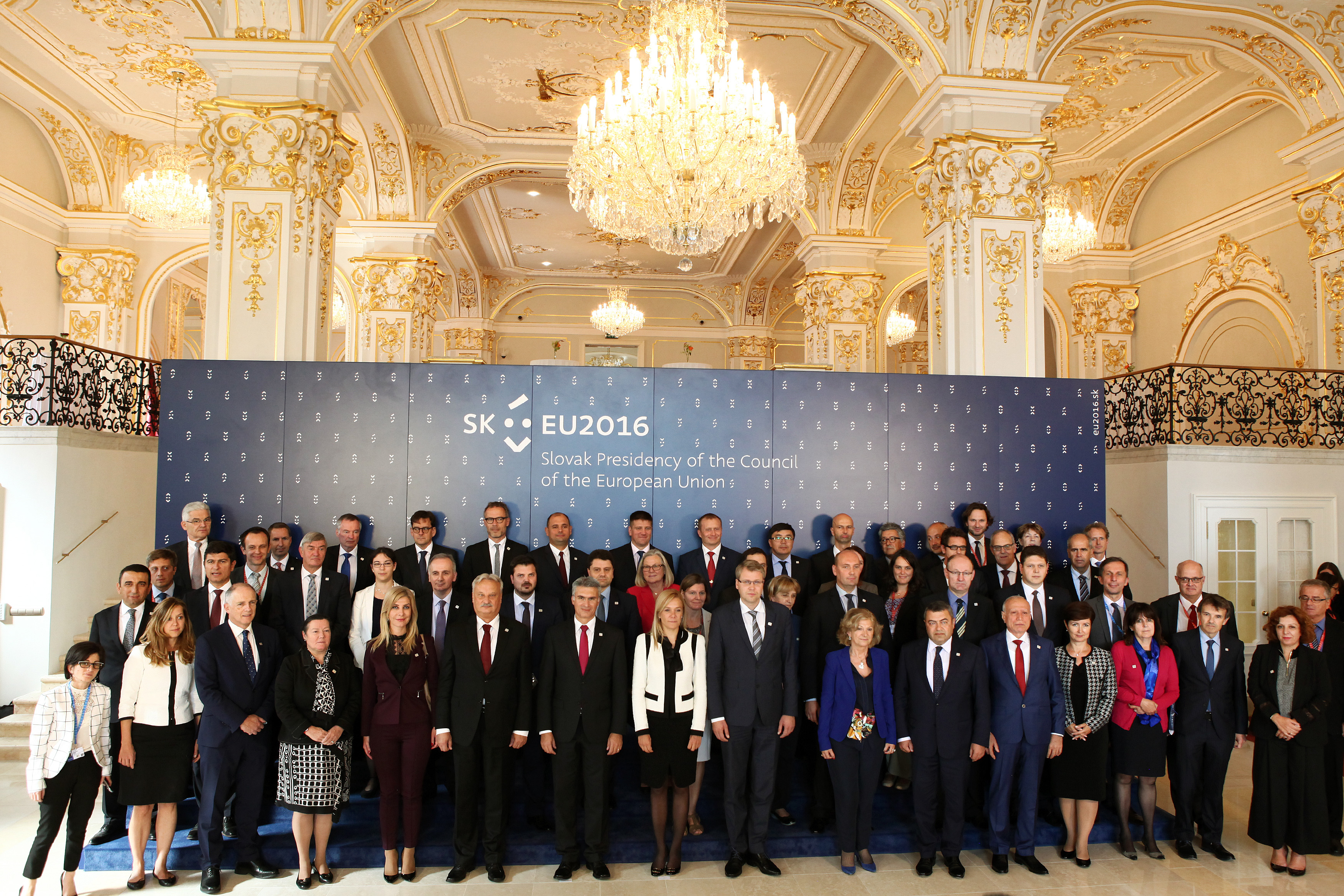 3rd Ministerial Conference of the Prague Process Photo: Andrej Klizan